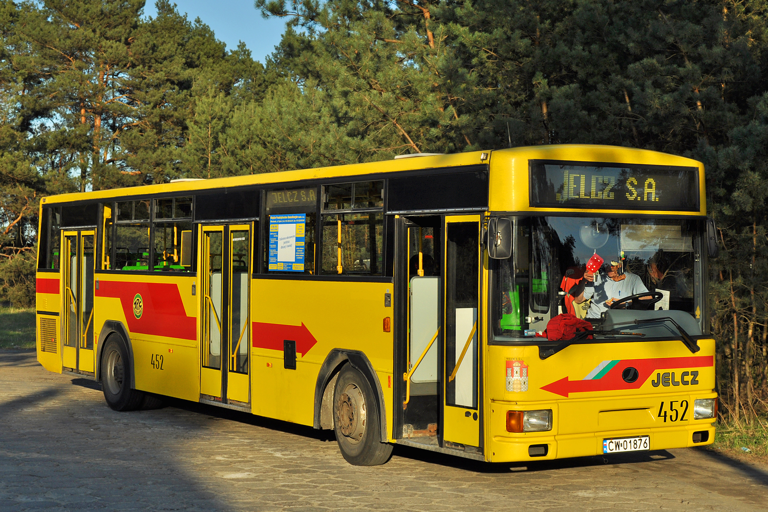 Jelcz 120MM/2 bus (#452) in Włocławek, Poland. Built 2000, MPK Włocławek operator.